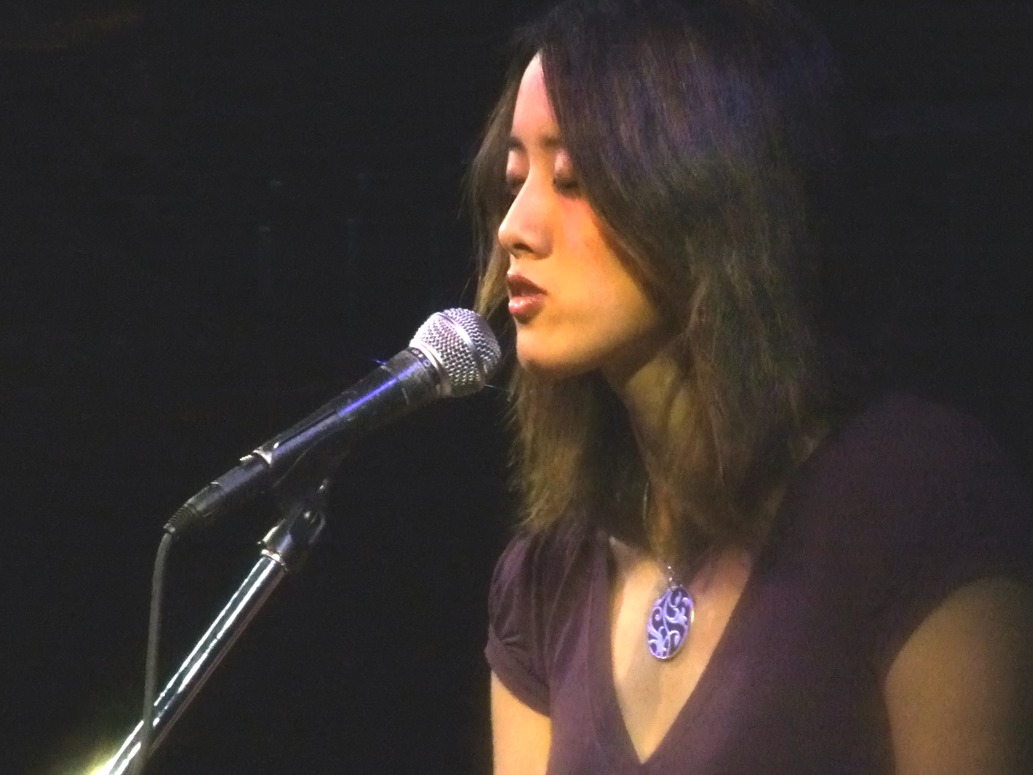 Vienna Teng at Joe's Pub in NYC 4-7-07 Photographed by Anthony Pepitone